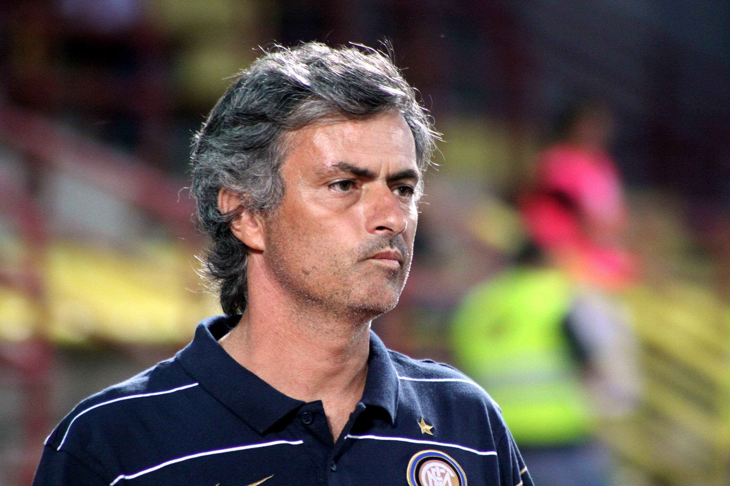 José Mourinho - F.C. Internazionale Milano